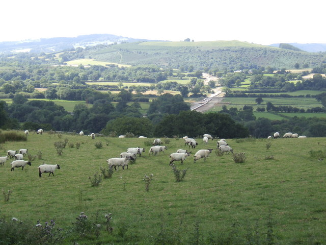 The Towy valley View from south to north; the Tirley gas pipeline makes a grey scar across the greenery.